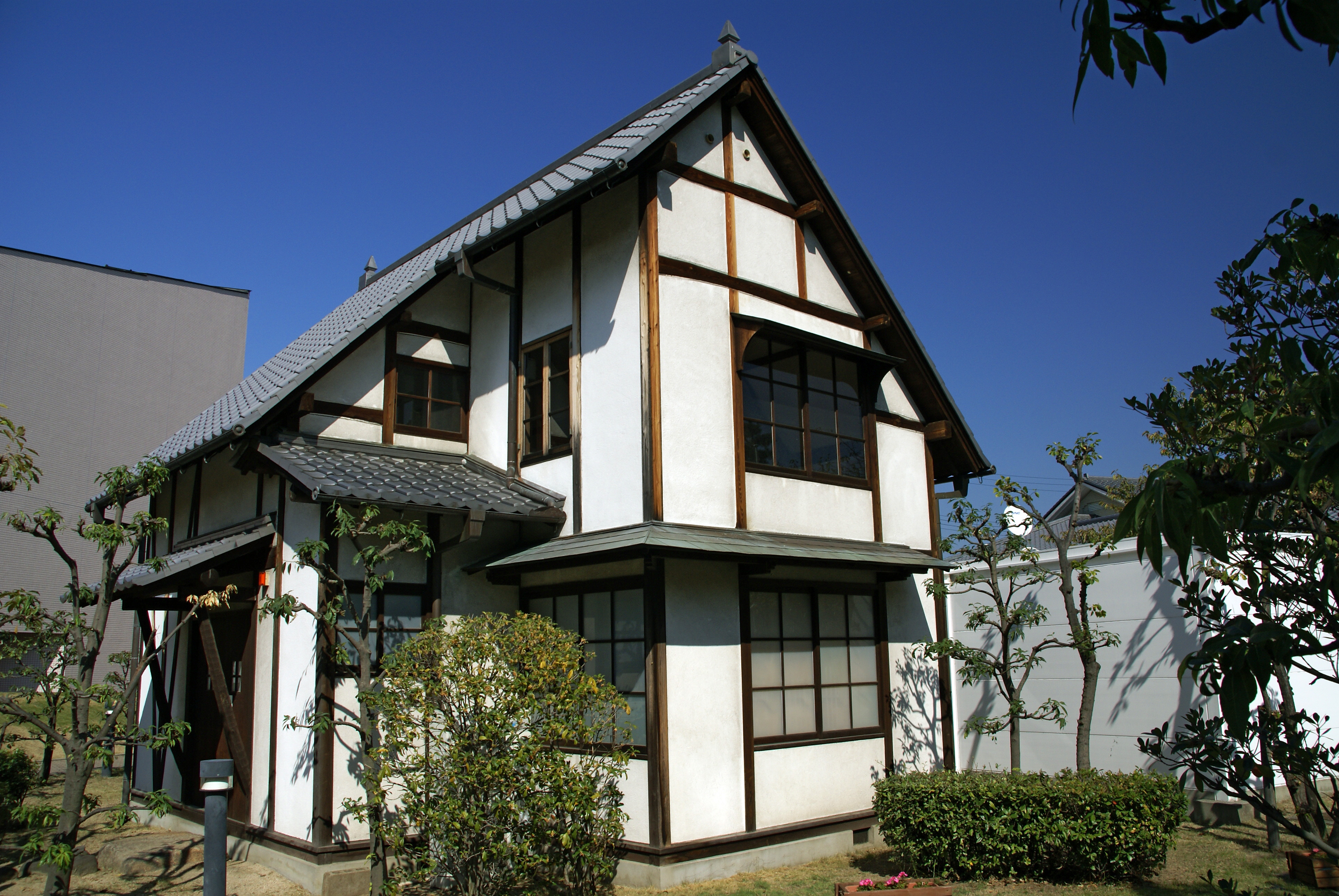 Atelier of Koide Narashige at Ashiya City Museum of Art & History in Ashiya, Hyogo prefecture, Japan